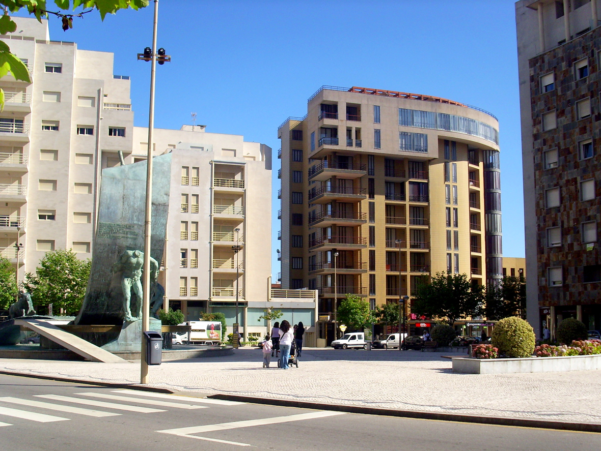 Touro intersection in Povoa de Varzim, Portugal